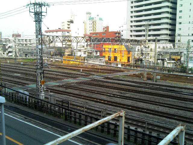 A level crossing in front of Kagetsuen Keirin stadium. Some television programmes cite the level crossing as the longest one in Japan